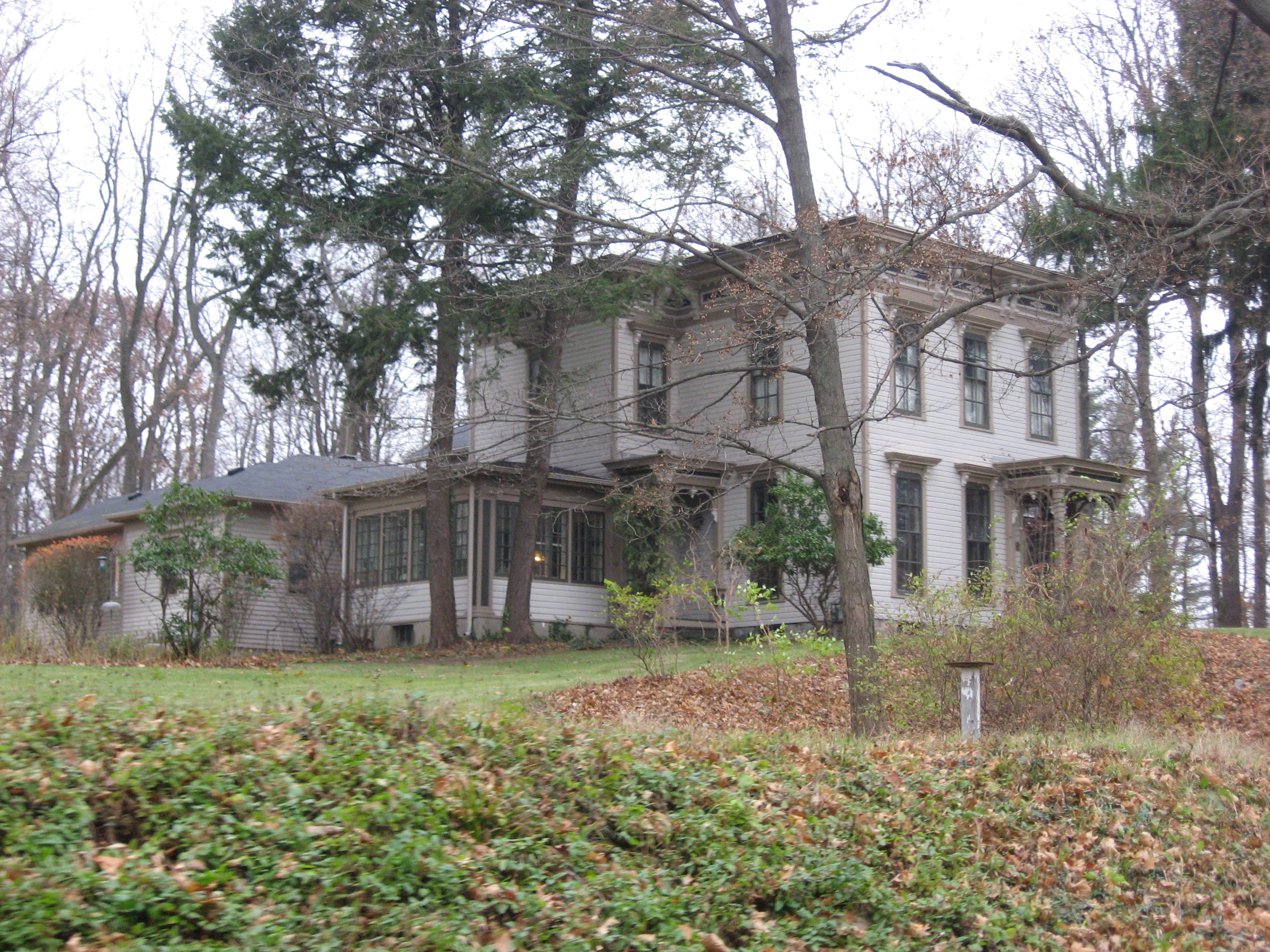 Front and southern side of the farmhouse at Evergreen Hill, located at 59449 Keria Trail south of South Bend in Centre Township, St. Joseph County, Indiana, United States. Built in 1873, it is listed on the National Register of Historic Places.